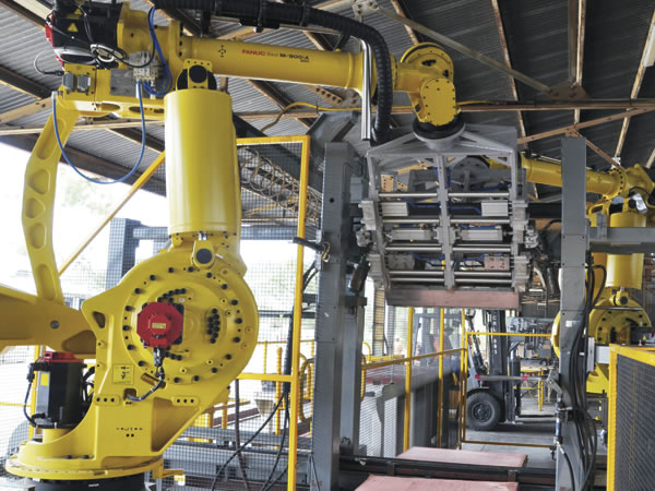 Photograph of the robotic IsaKiddTM cathode copper stripping machine as part of the IsaKidd copper refining and electrowinning process.